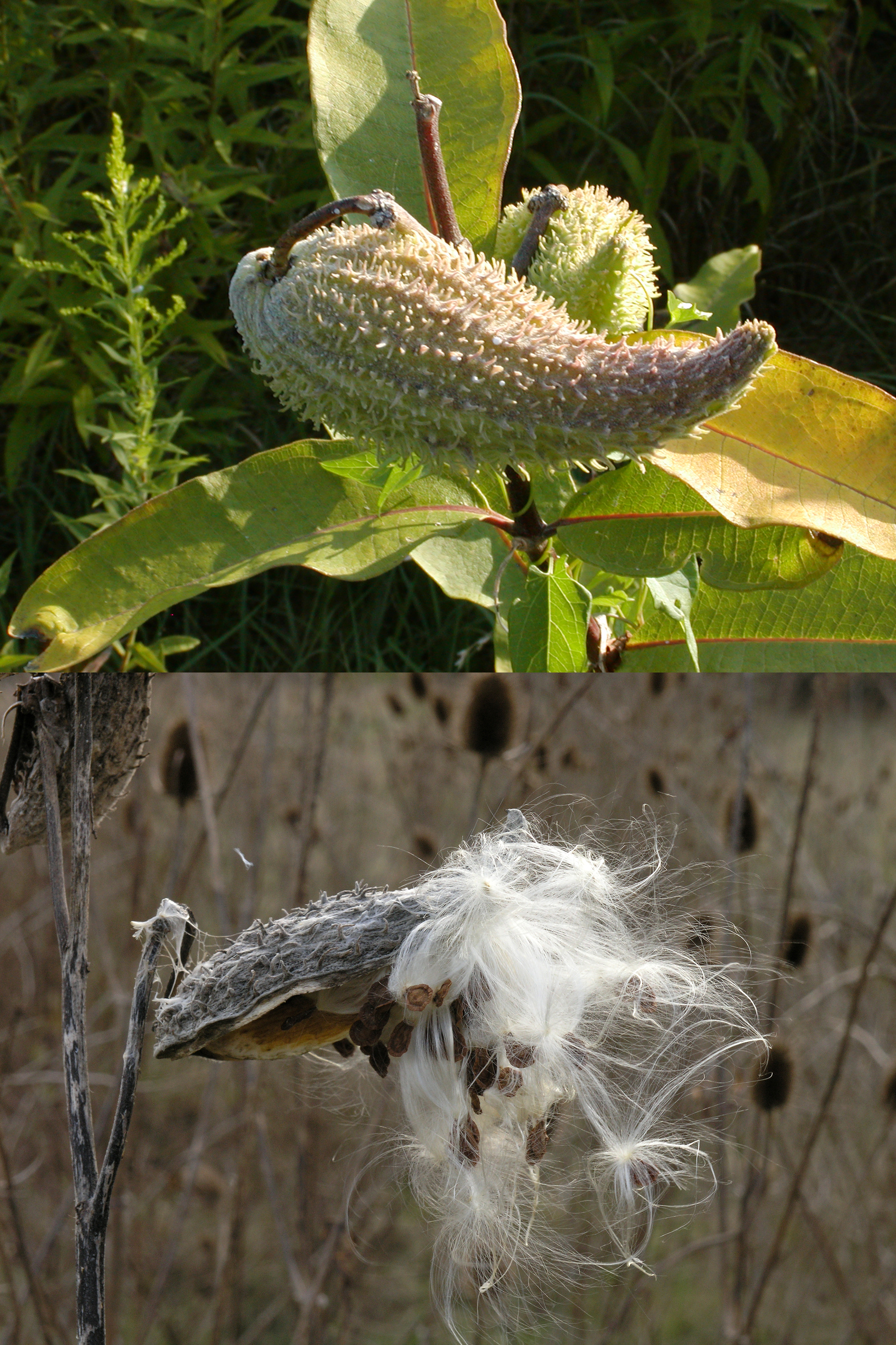 Milkweed - Asclepius syrica. Upper photo taken in August 2004 and lower in December 2004.